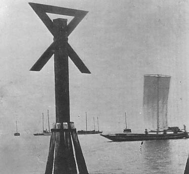 Miotsukushi in Osaka